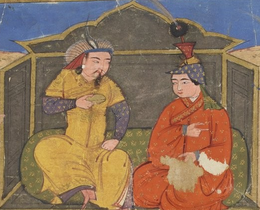 Abaqa and her khatun (possibly Dorji Khatun)